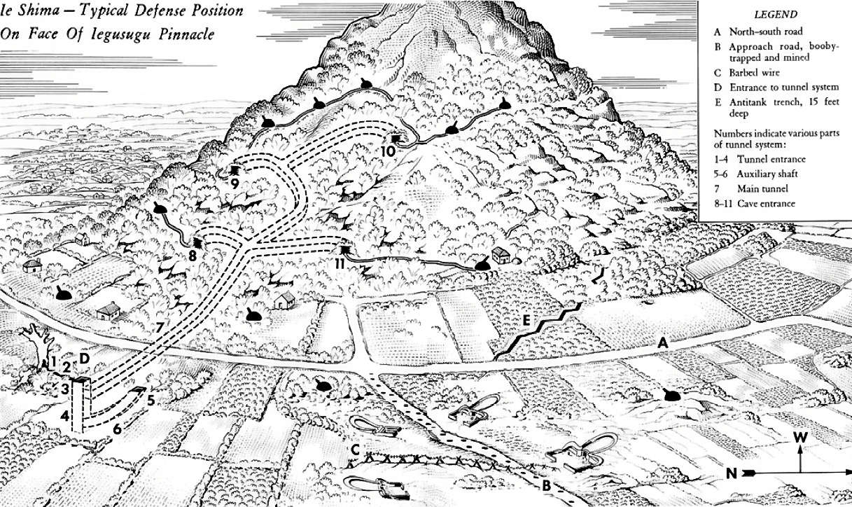 This diagram of a typical defense system on the face of Iegusugu Pinnacle was adapted from a sketch appearing in CINCPAC-CINCPOA Weekly Intelligence, Volume 2, Number 5, 13 August 1945. The diagram does not show all the defensive positions in the area depicted and is designed only to indicate the method by which the enemy attained mobility even in fighting from positions underground. In describing this position the bulletin states: About 50 yards south of the approach road was the camouflaged entrance to a typical tunnel system within the hill. The entrance was a square log-shored shaft 30 feet deep. A smaller curved shaft which came to the surface about 15 feet away was probably designed for ventilation purposes. The main tunnel to the hill installations ran from this shaft, under the road to the first of a series of caves approximately 100 feet from the shaft entrance. This tunnel was from four to five feet high and three feet wide. Walls were reinforced with logs six to eight inches in diameter, loose coral rock on the ceilings was held in place by logs. The tunnel apparently was used for ammunition storage as well as communication.